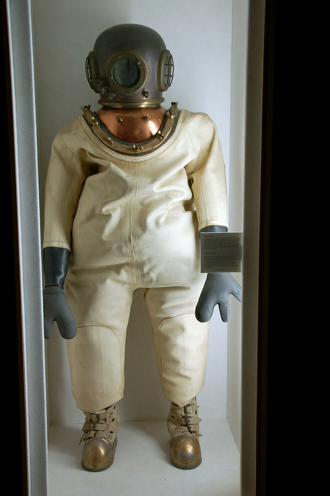 Museu Maritim, Barcelona, Spain